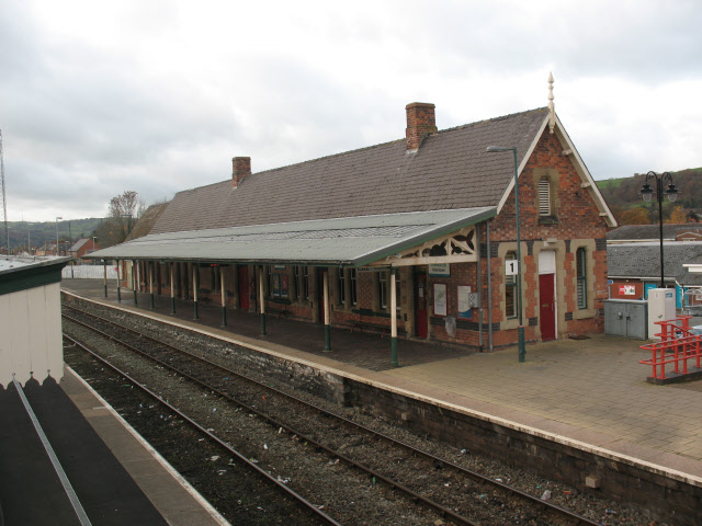 Newtown (Powys) railway station Original description: Newtown: station buildings The main station buildings on the Up (eastbound) platform at Newtown / Y Drenewydd.